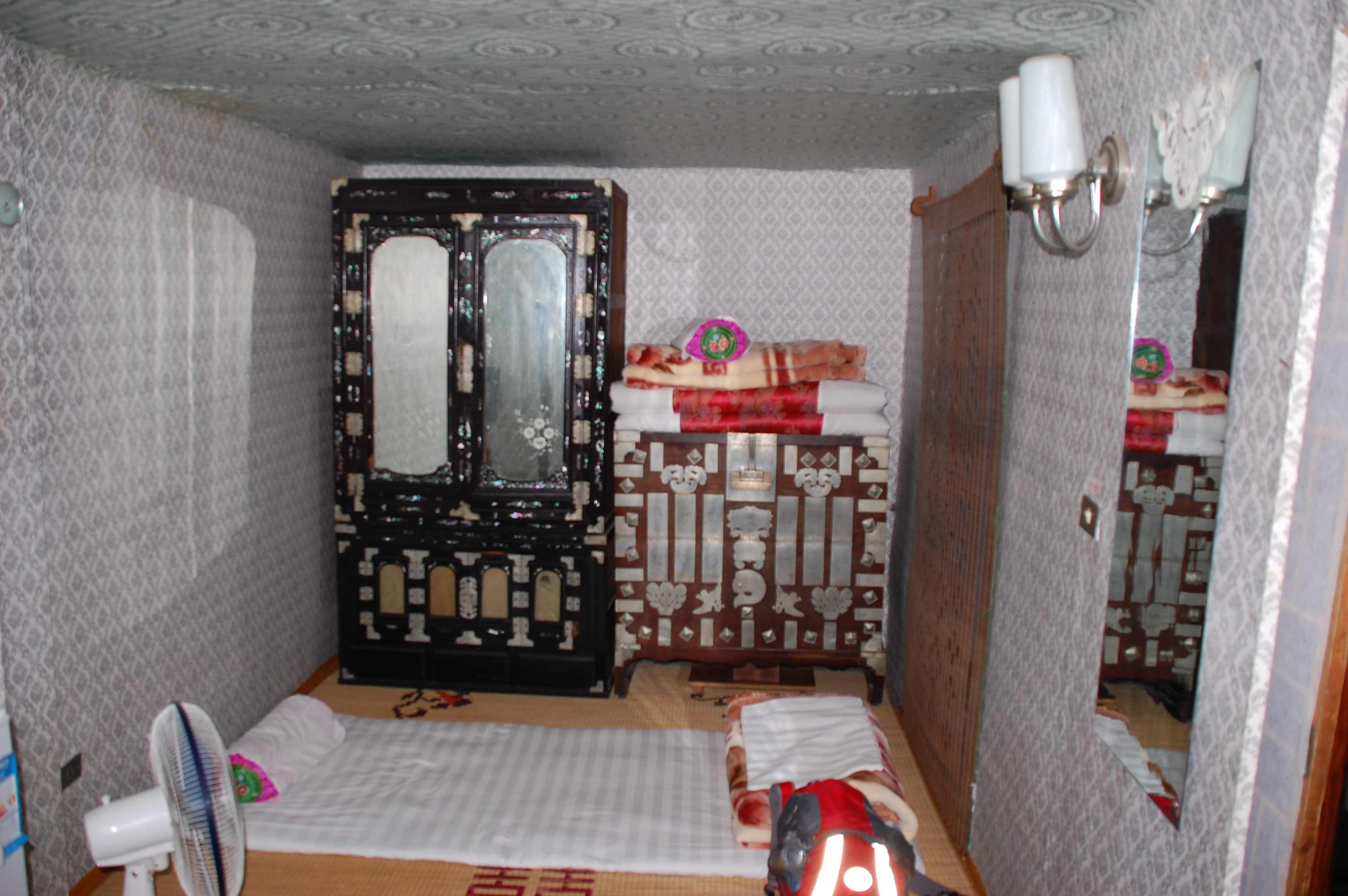 Trip to North Korea in July, 2007